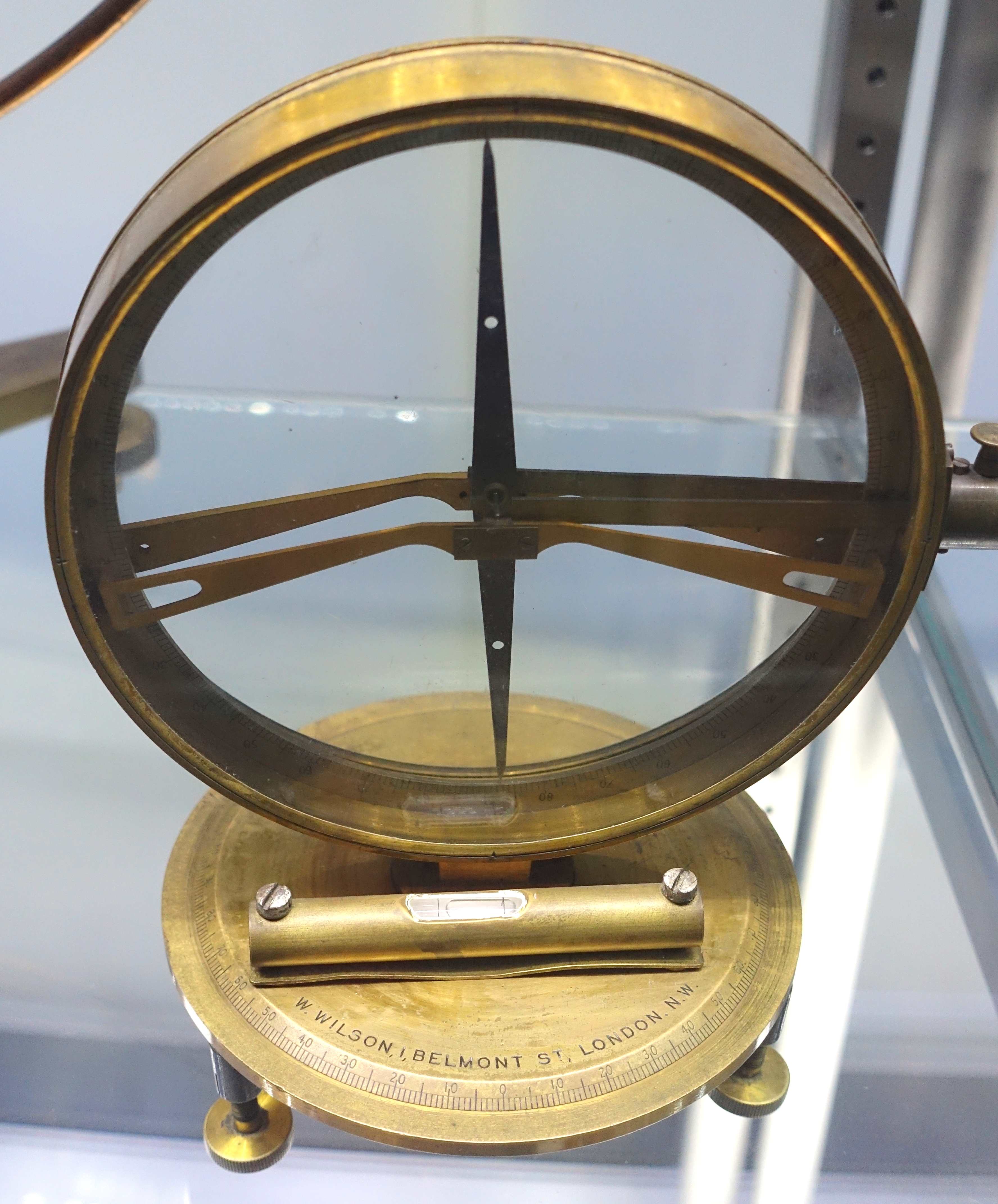 Exhibit in the Museum of Science and Industry, Chicago, Illinois, USA.